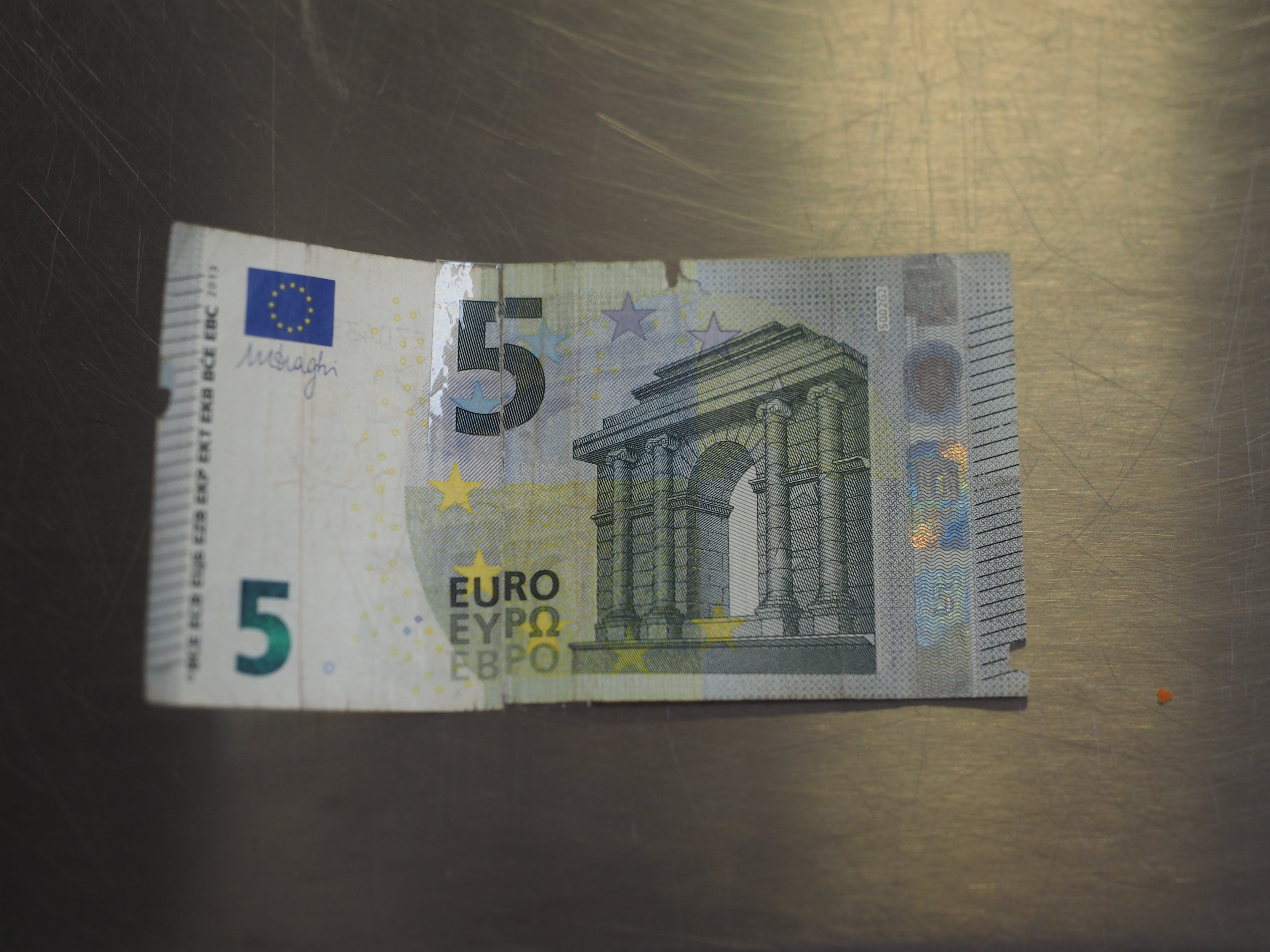 A 5 Euro note in really bad condition. The note has actually been torn in half and then reassembled with clear tape.